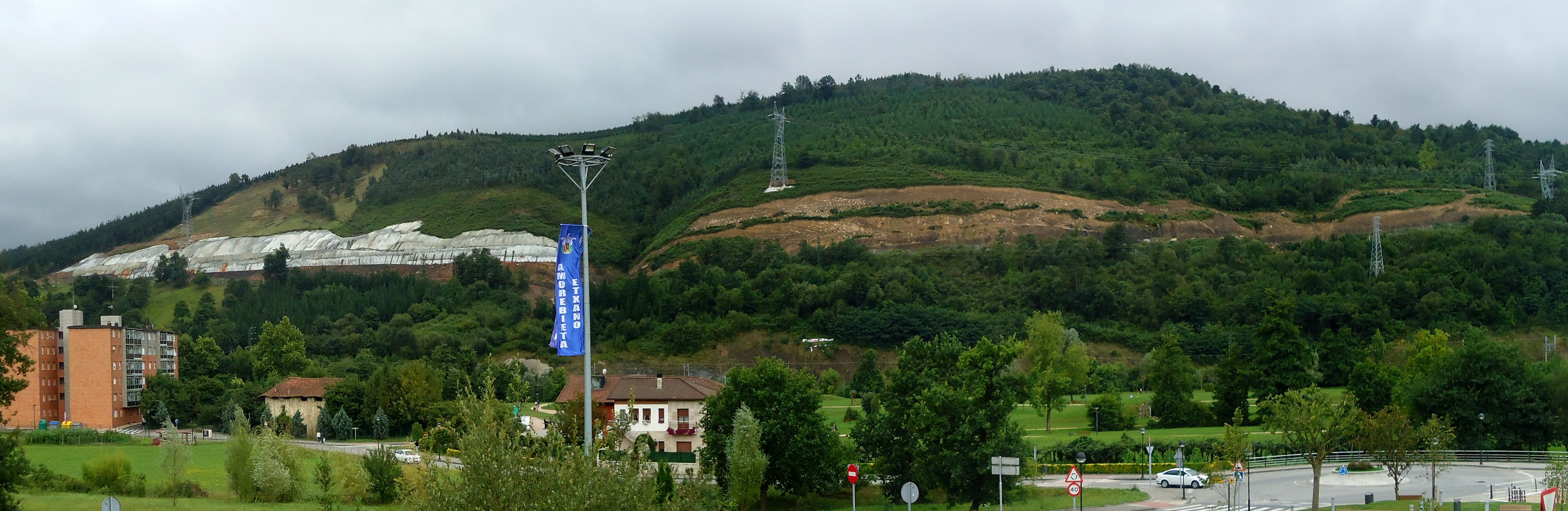 High speed train works in a mountain in Amorebieta (Biscay, Basque Country, Spain)